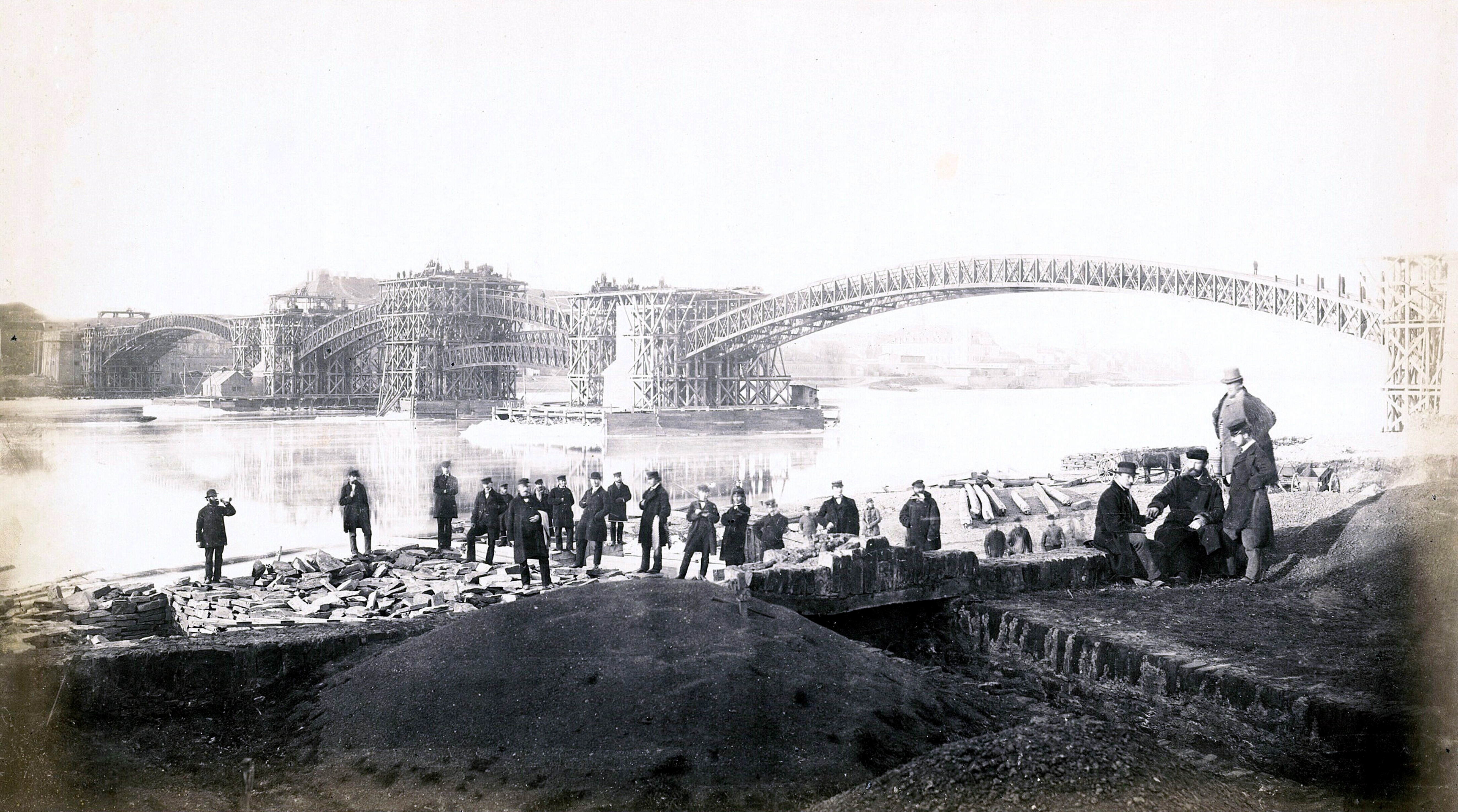 Construction of Pfaffendorf Bridge in Koblenz